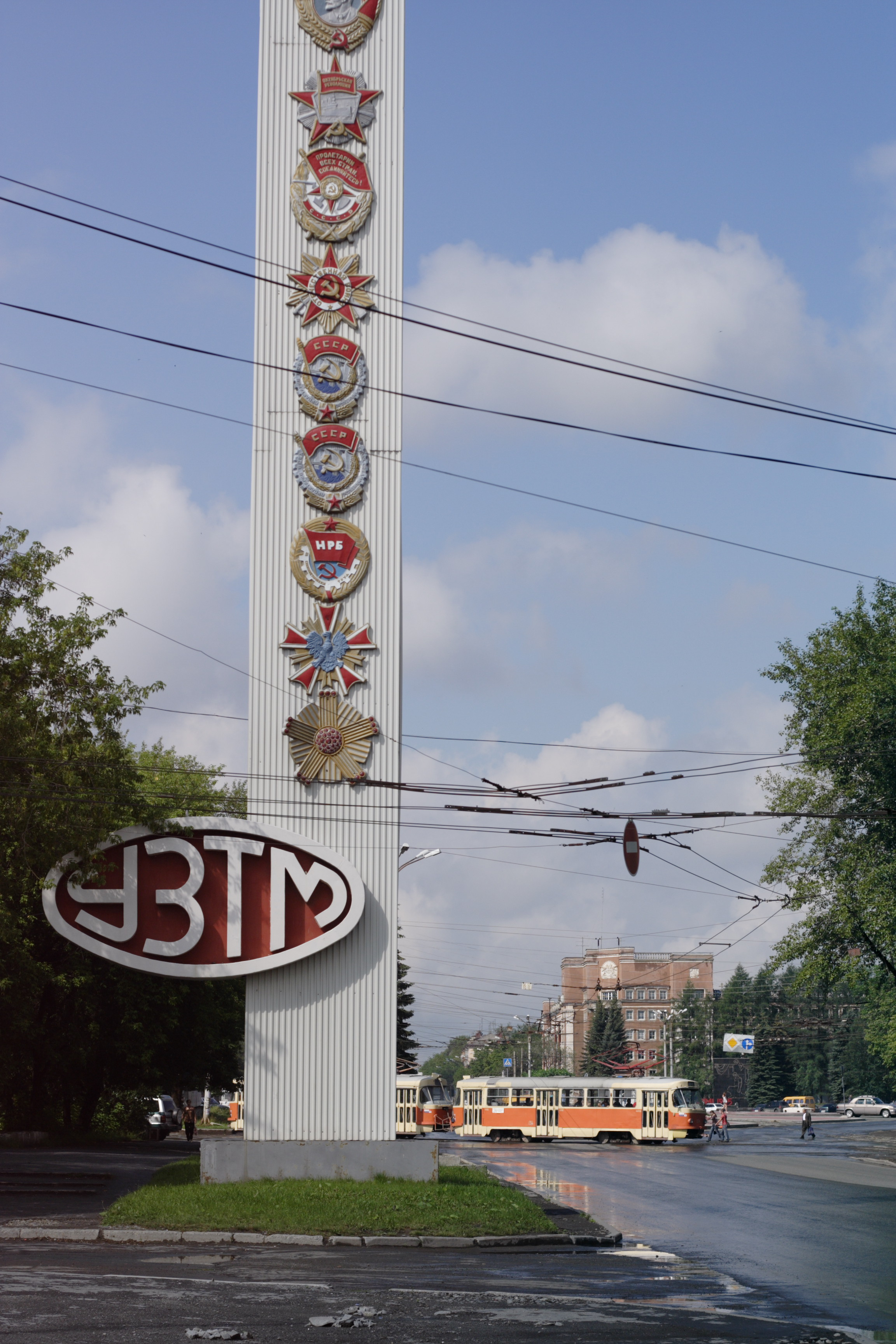 UZTM (Uralmash) signUZTM - Uralmash